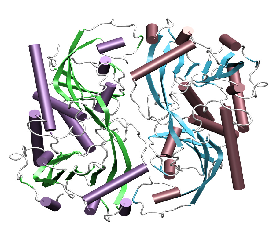 Picture of the structure of the dimer of the DAAO from yeast. PDB code: 1c0p